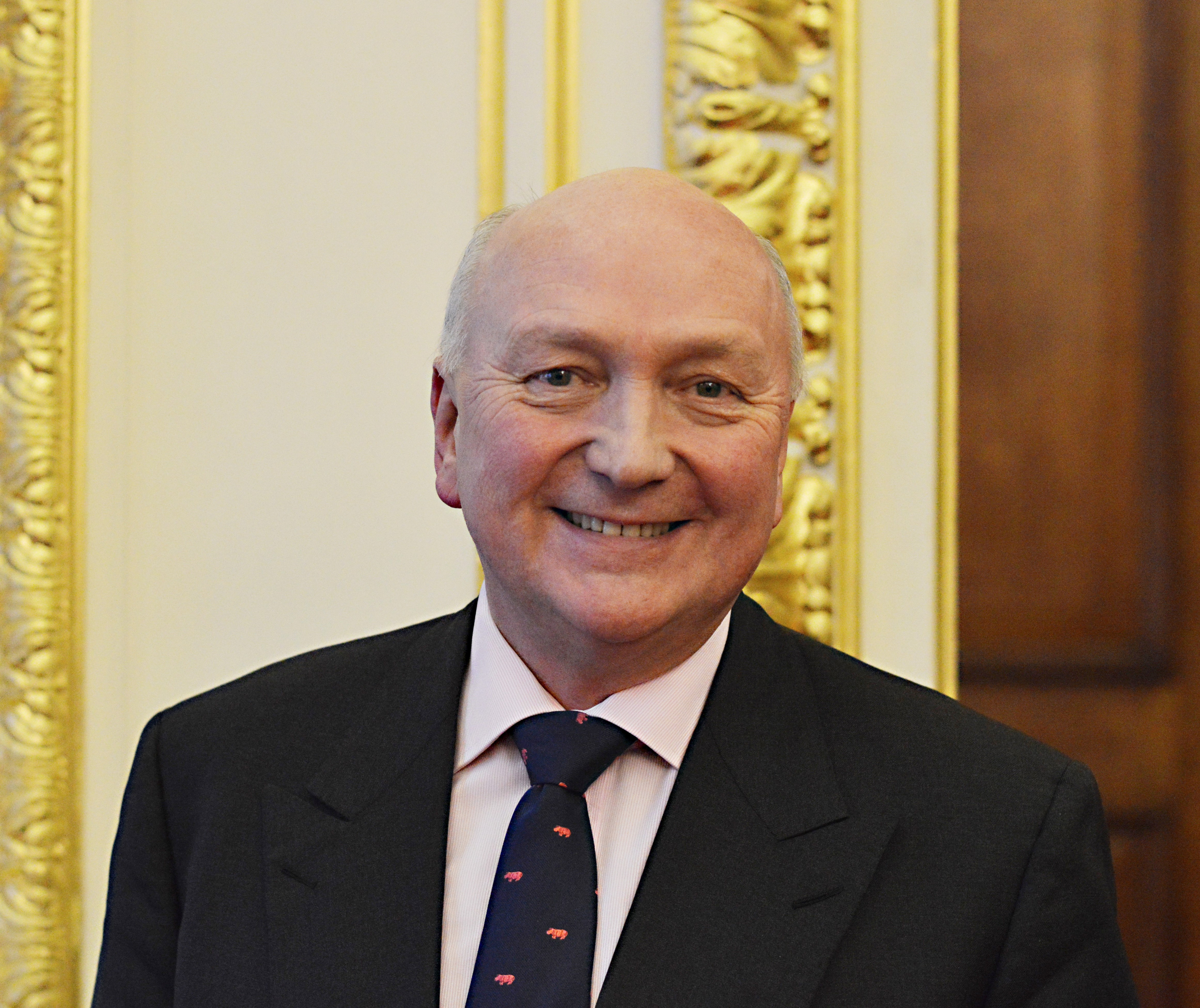 Sir David Reddaway, photographed in 2016 at Goldsmiths' Hall